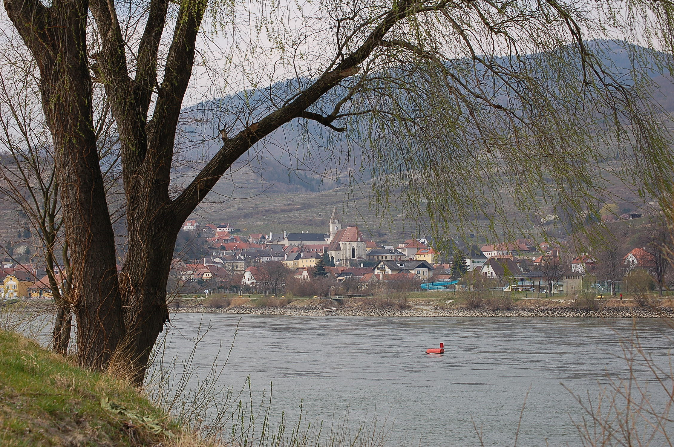 Spitz, Wachau Valley, as seen from Hofarnsdorf